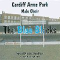 Cover of the Cardiff Arms Park Male Choir CD The Blue Blacks